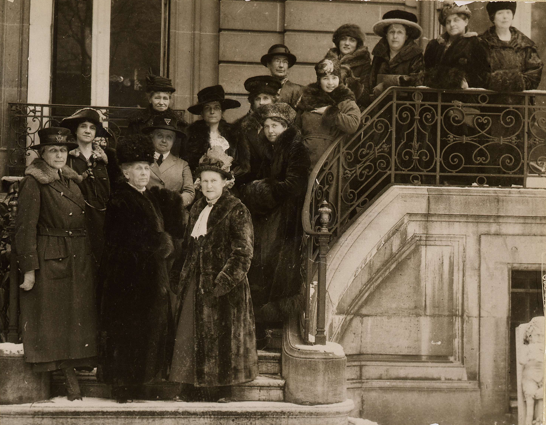 Inter-Allied Women's Conference 10 February 1919-10 April 1919. First row, left to right: Florence Jaffray Harriman (United States); Marguerite de Witt-Schlumberger (France); Marguerite Pichon-Landry (France). Second row: Juliette Barrett Rublee (United States); Dr. Katharine Bement Davis (United States), Cécile Brunschvicg. Third row: Millicent Garrett Fawcett (Great Britain); Ray Strachey (Great Britain); Rosamond Smith (Great Britain). Fourth row: Jane Brigode (Belgium); Marie Parent (Belgium); Nenia Boyle (South Africa); Louise van den Plas (Belgium). Sixth row: Sonnine Carpi (Italy); Eva Mitzhouma (Poland).